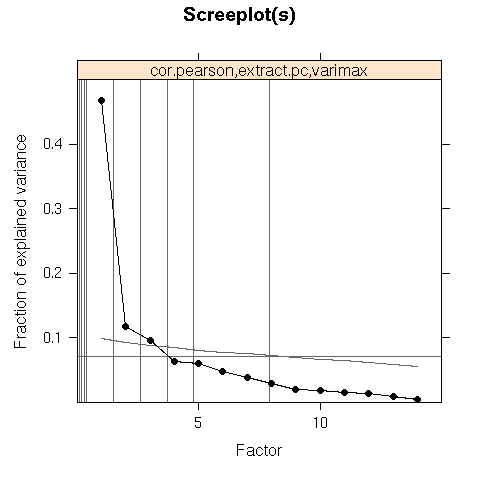 Scree plot in factor analysis for Boston Housing data with various selection criteria: Horn/Parallelanalyse (slow falling grey horizontal line), Kaiser/Kaiser-Guttmann (grey horizontal line), x% criteria (vertical grey lines, from right to left: 90%, 80%, 70%, ..., 10%), black line: fraction of explained variance by an i factor model